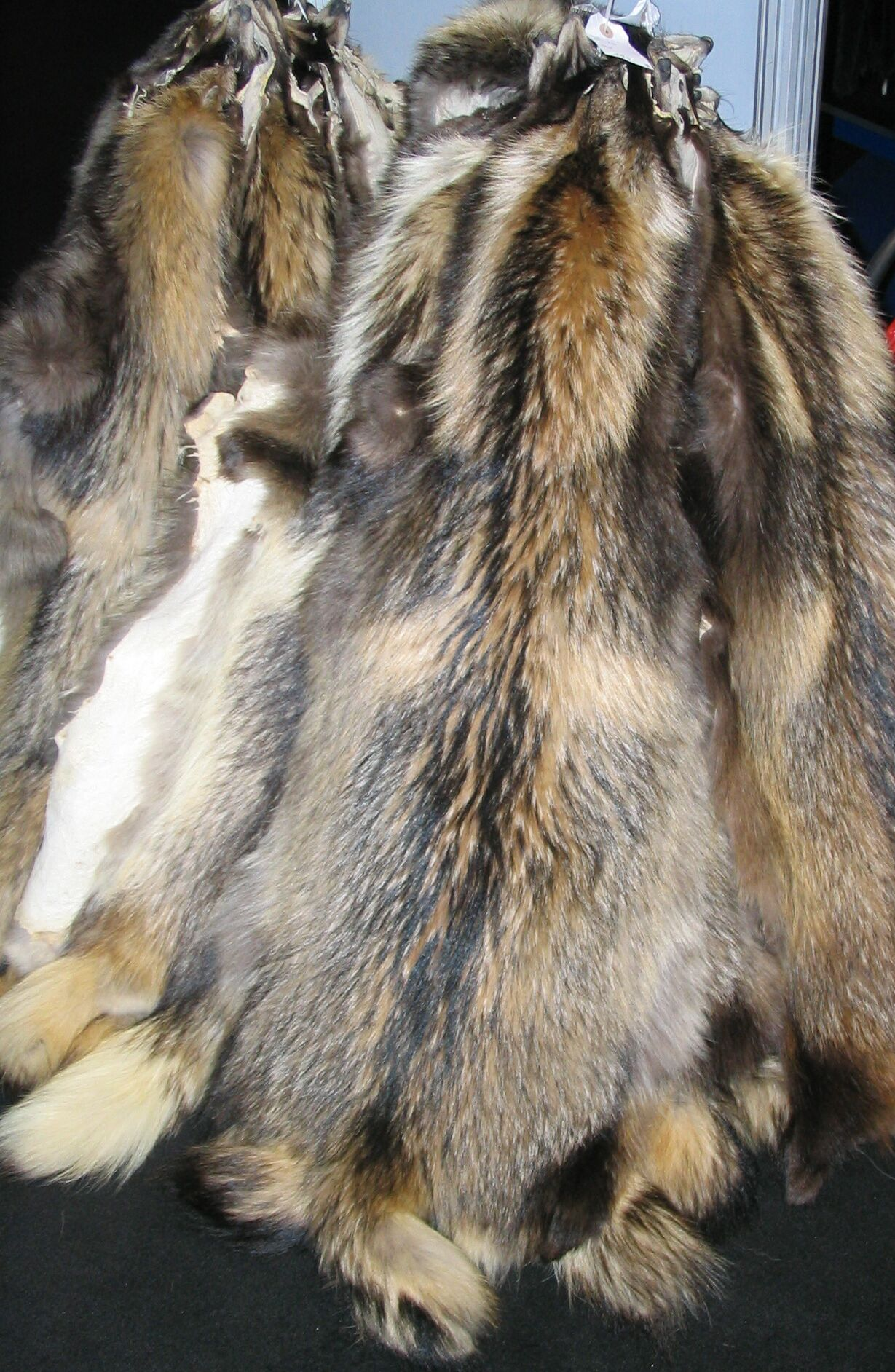 ‚Chinese raccoon‘ (raccoon dog) fur-skins)